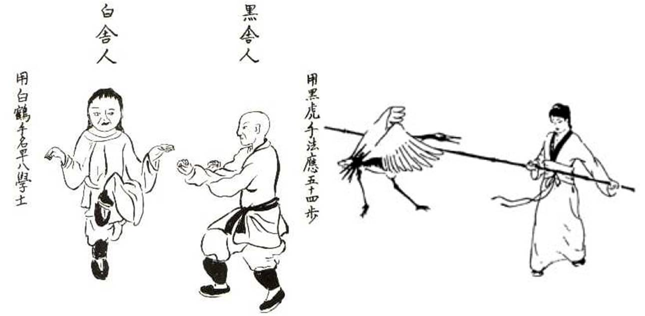 White Crane, kung-fu, Guan Fa